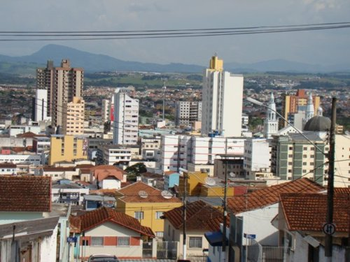 City Of Pouso Alegre in Minas Gerais, Brazil.